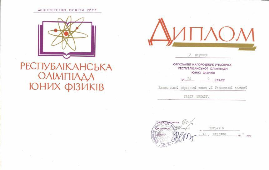 Diploma of 2 degrees of Republican competition of young physicists in Nikolaev, 1977, Nicholas Gazda, Klevan SSH№1